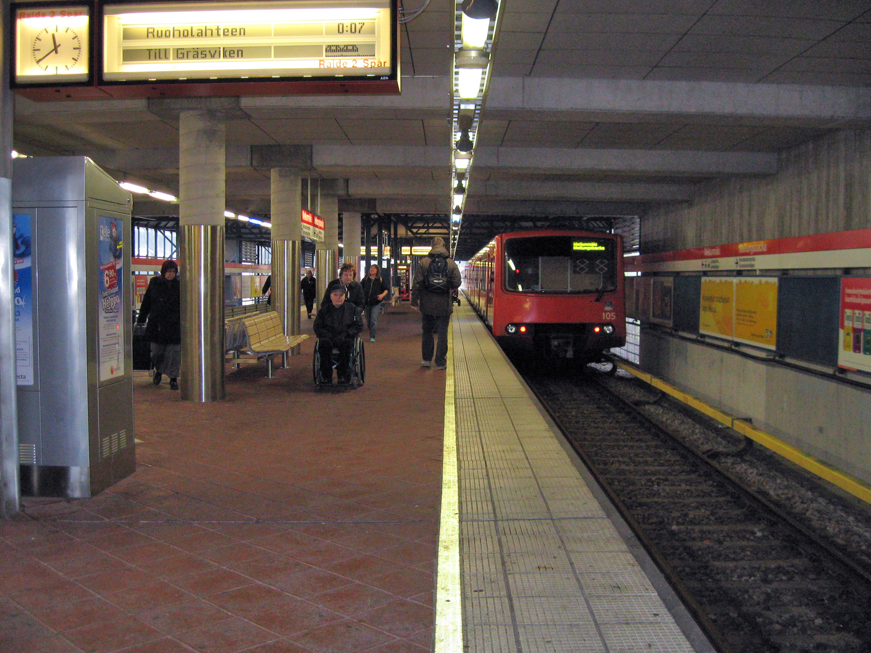 Mellunmäki metro station in Helsinki, Finland